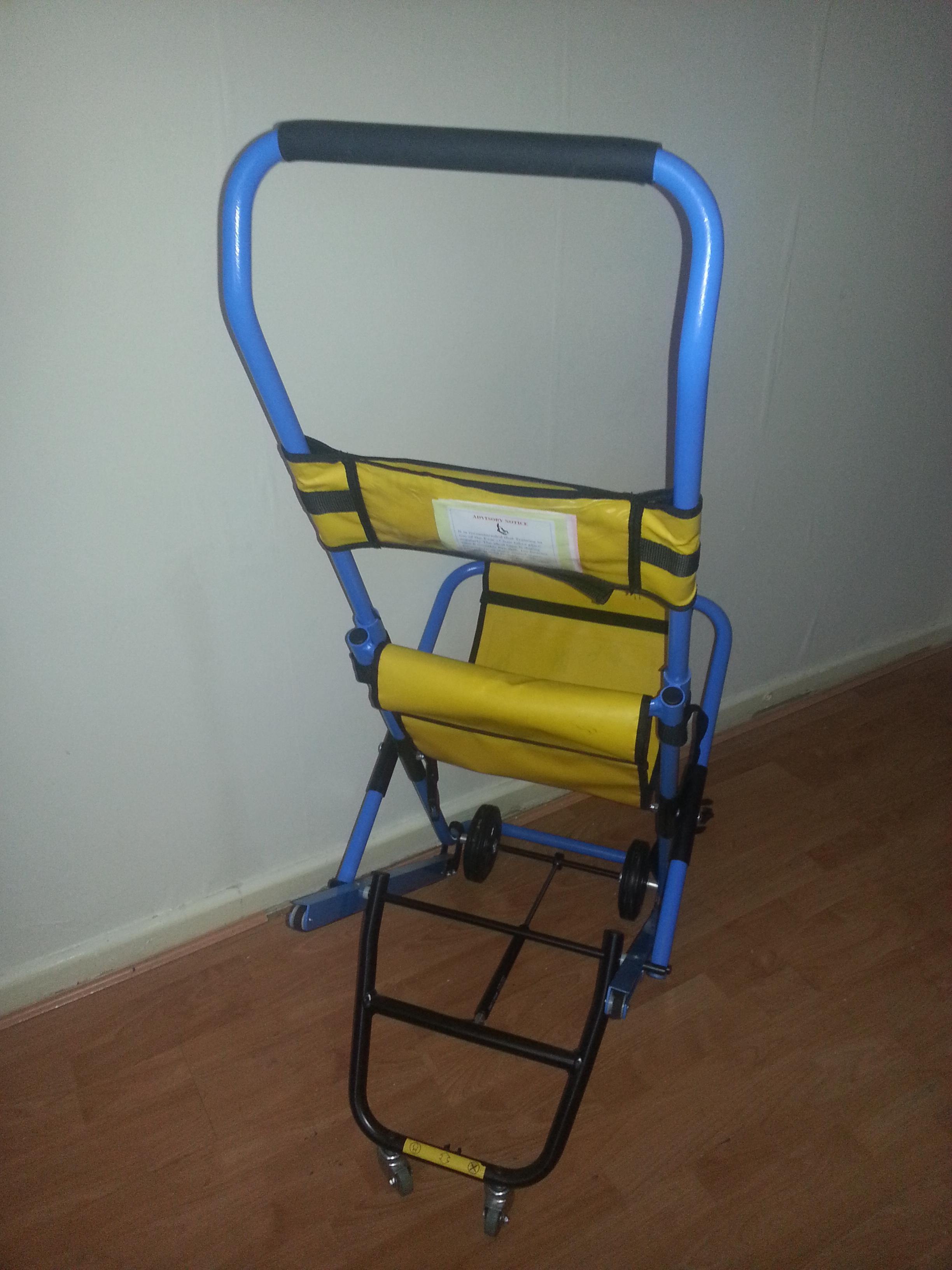 Evacuation chair used to evacuate people with mobility imparements or any other situation where prompt evacuation is required. These chairs need to be serviced yearly